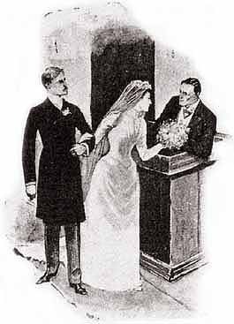 Illustration of the Sherlock Holmes short story The Noble Bachelor, which appeared in The Strand Magazine in April, 1892. Original caption was "THE GENTLEMAN IN THE PEW HANDED IT UP TO HER.